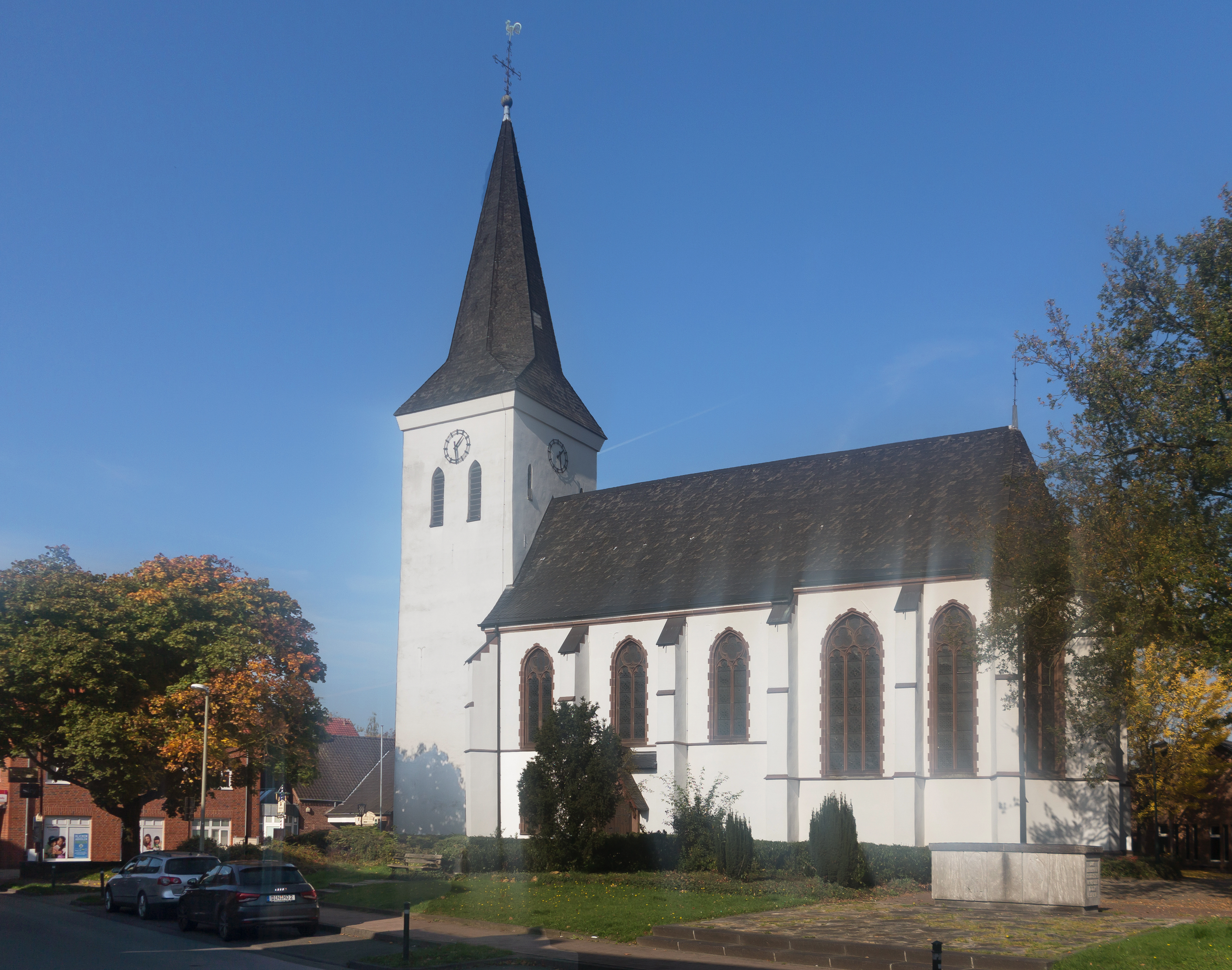 Hamminkeln, the reformed churchThis is a photograph of an architectural monument., no. 52